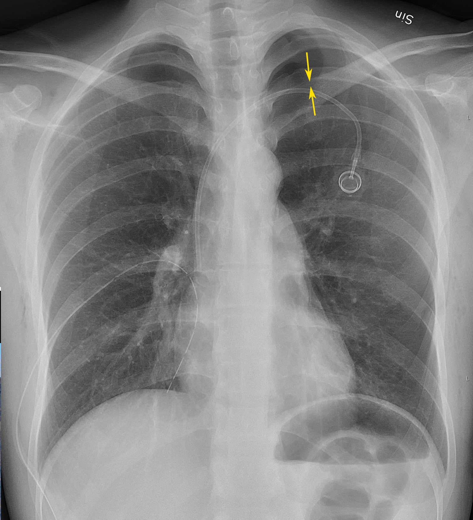 edit Anteroposterior, inspired.Original image. Lateral, inspired.Original image. Anteroposterior, expired. These are two X-rays taken at the same time of a 31 year old woman who had a port inserted for chemotherapy against breast cancer (hence, both breasts have been surgically removed). During inspiration, only subtle pneumothorax is seen in the apical part of the left thoracic cavity. It is seen more clearly posteriorly on lateral X-ray. During expiration, the pneumothorax takes up approximately 50% of the cavity.